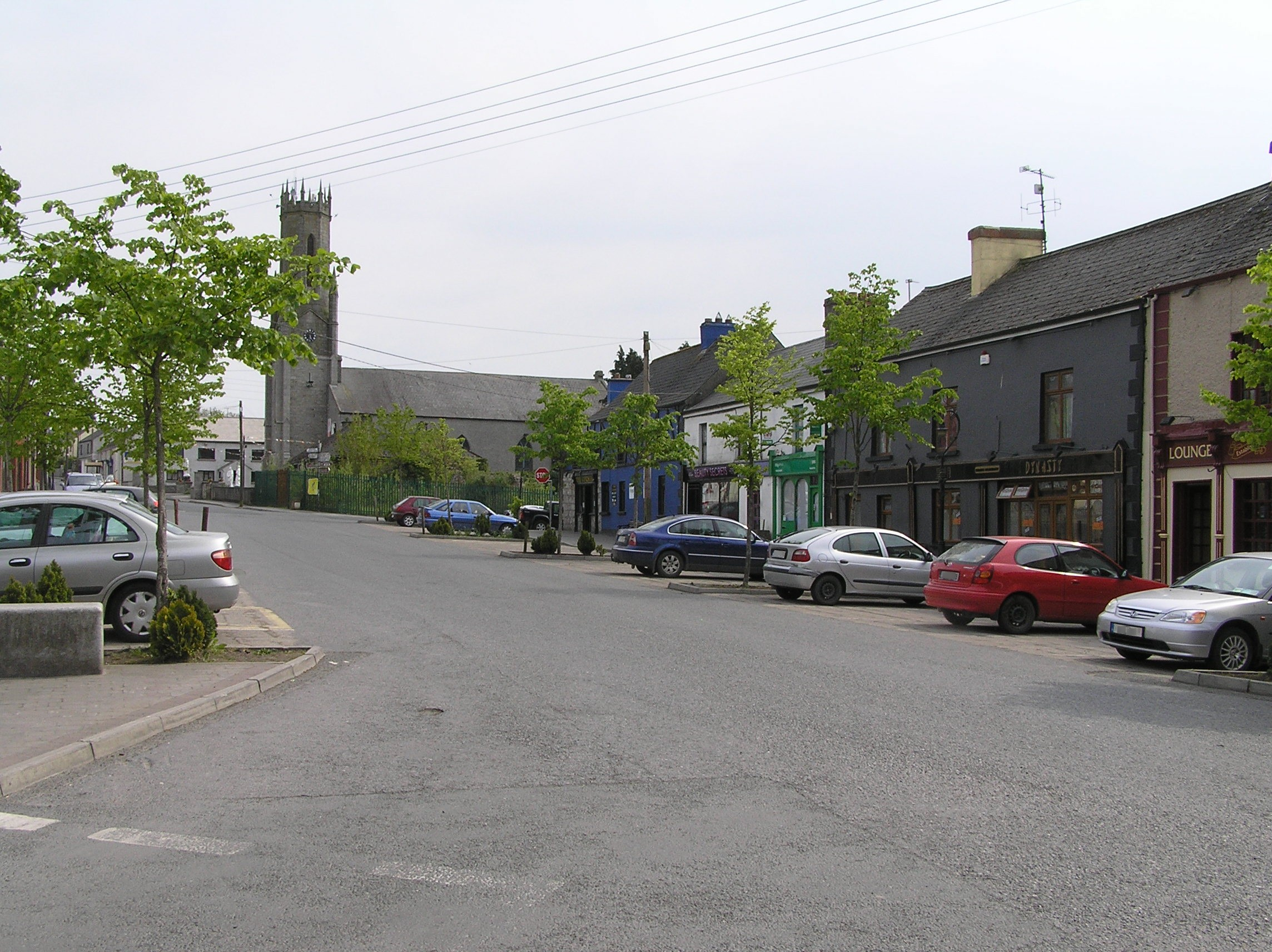 View up Main Street of Hacketstown, Co Carlow. Post office (in green) is to the right. The church in the center of the picture is St. Brigid’s Church.